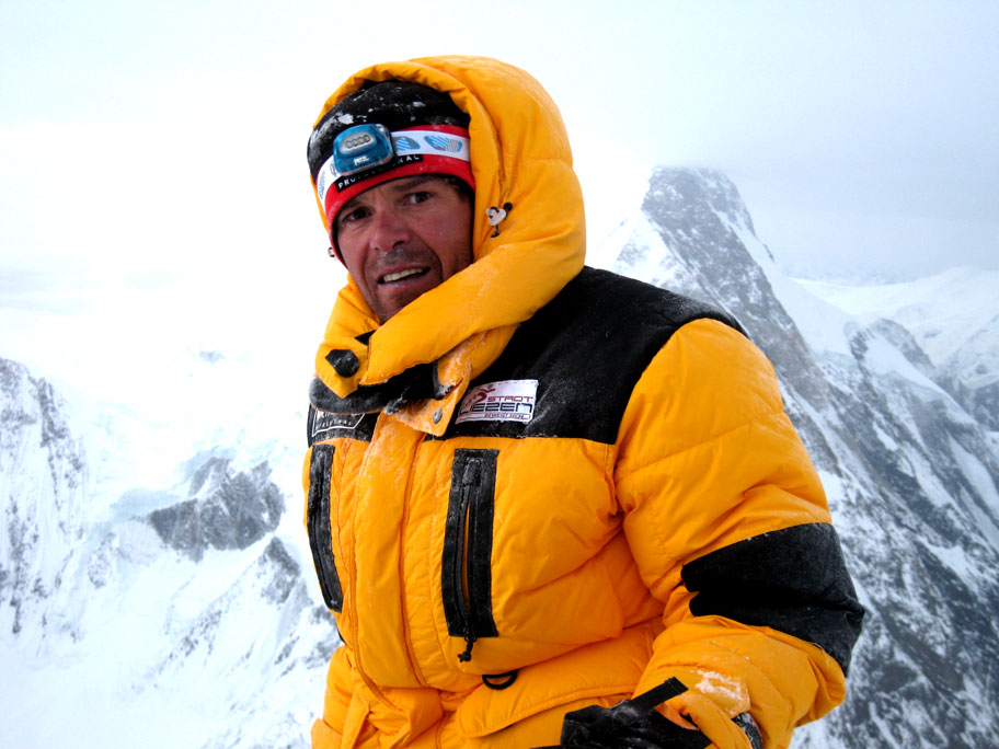 Gerfried Göschl K2